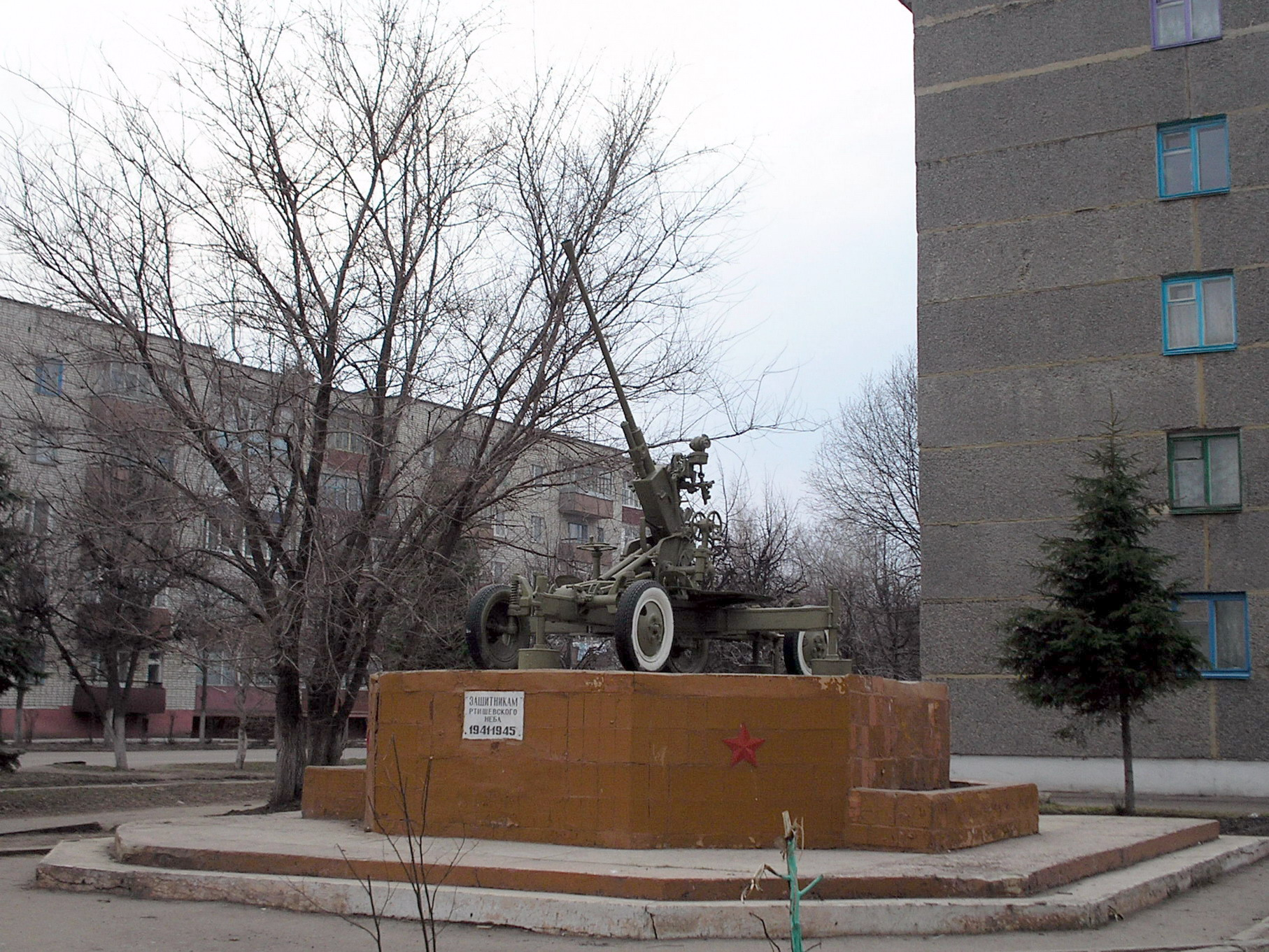 Rtishchevo. Monument "Defenders of Rtishchevo's sky"